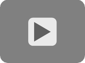 Video Icon